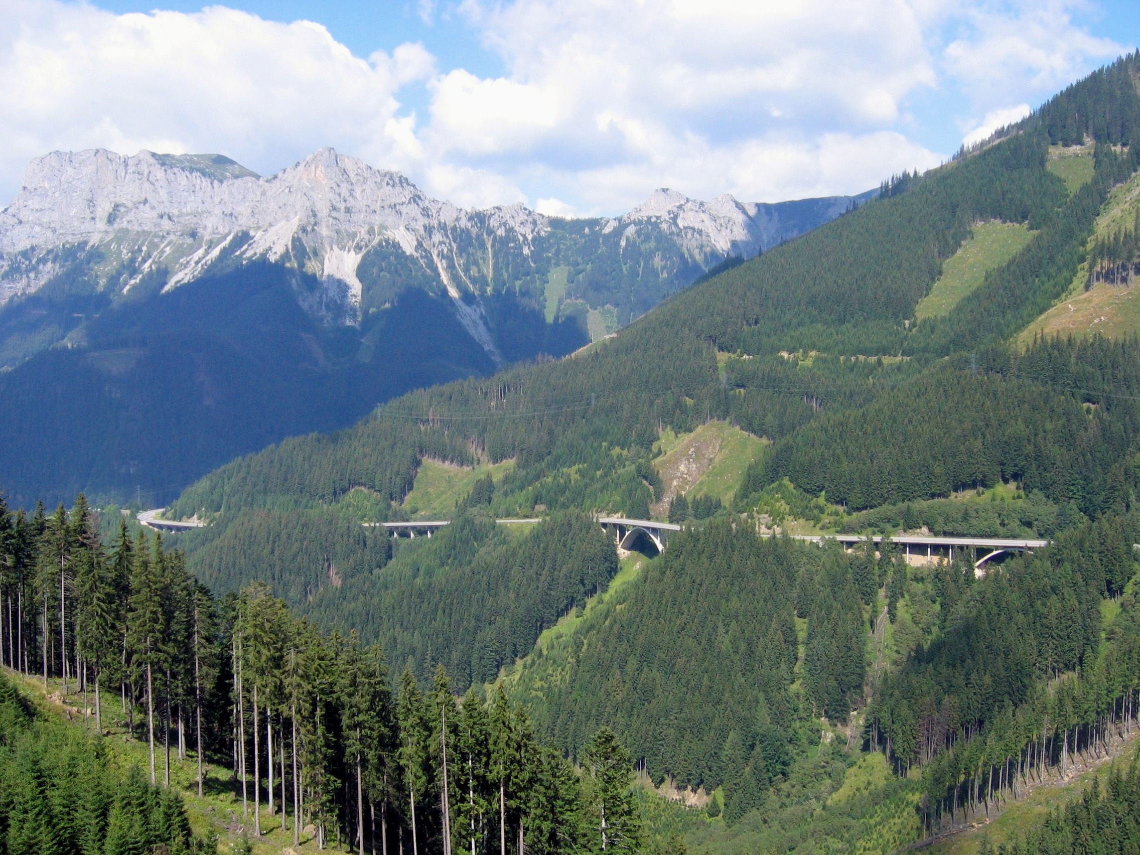 Northern ramp of the new Präbichl pass road in Styria